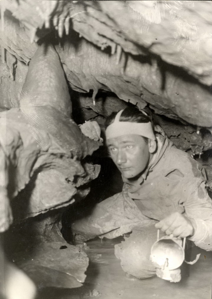 Hubert Kessler under way to Ördöglyuk (Devilhole) in Baradla Cave